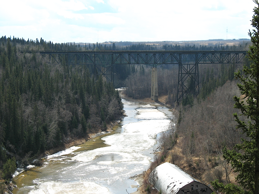 The Twin Bridges of Entwistle, gliding over the Pembina River